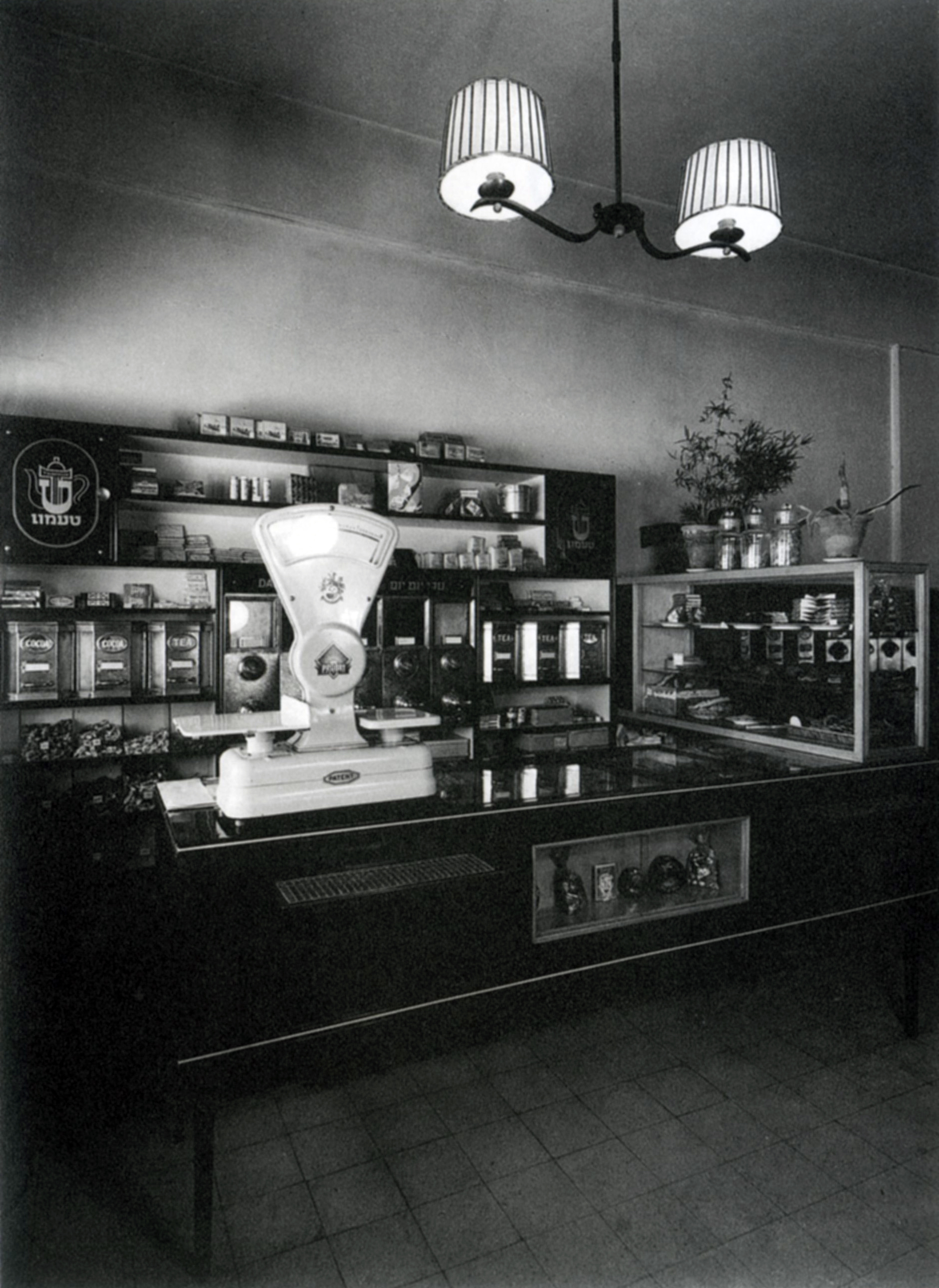 Photograph